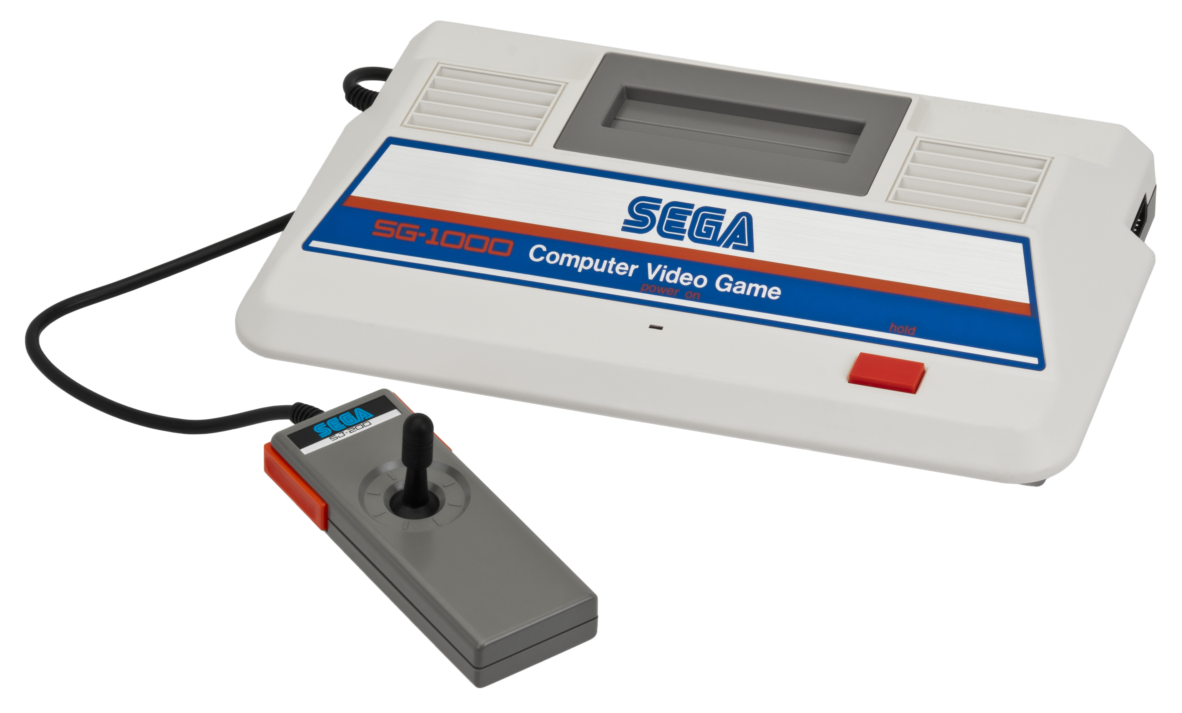 The Sega SG-1000, a video game console released in Japan in 1983.